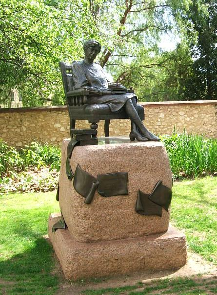 Statue of Dame Roma Mitchell, Adelaide, South Australia